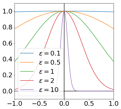 This shows a plot of the Gaussian function for several choices of shape parameter. As the parameter gets small, the function approaches a flat line. As it gets large, the function becomes sharper.